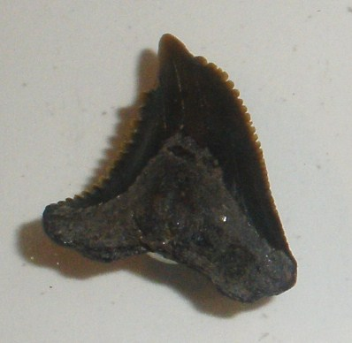 Fossil of Hemipristis serra, an extinct shark. Took the photo at Naturalis museum, Leiden